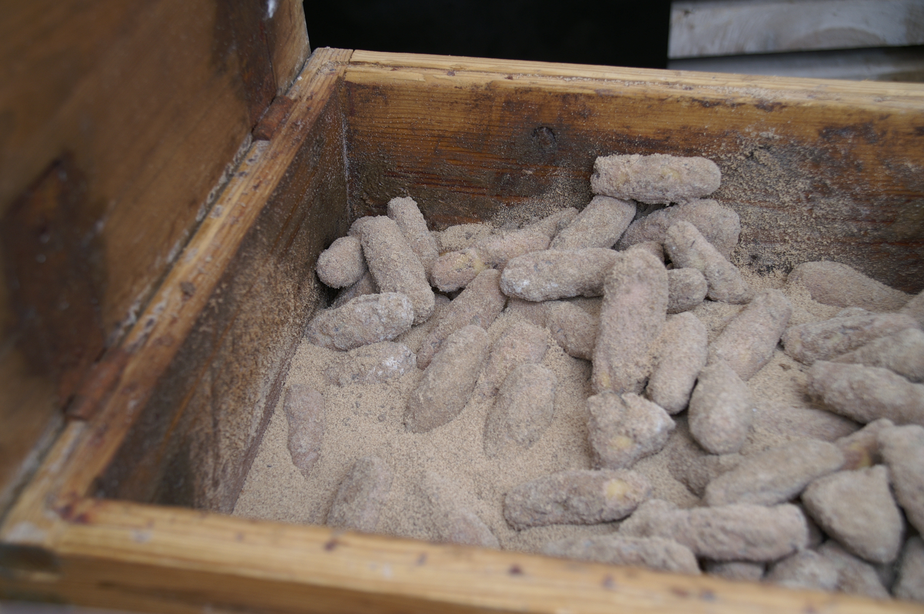 A cheese box, used to mature Milbenkäse with cheese mites (Tyrophagus putrescentiae)